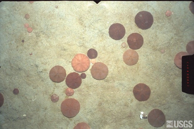 Sand dollars Caption: 137. sand. USG Station 3868, September 2000, Longitude: -70°35.3682', Latitude: 42°5.1489', Water depth 15m